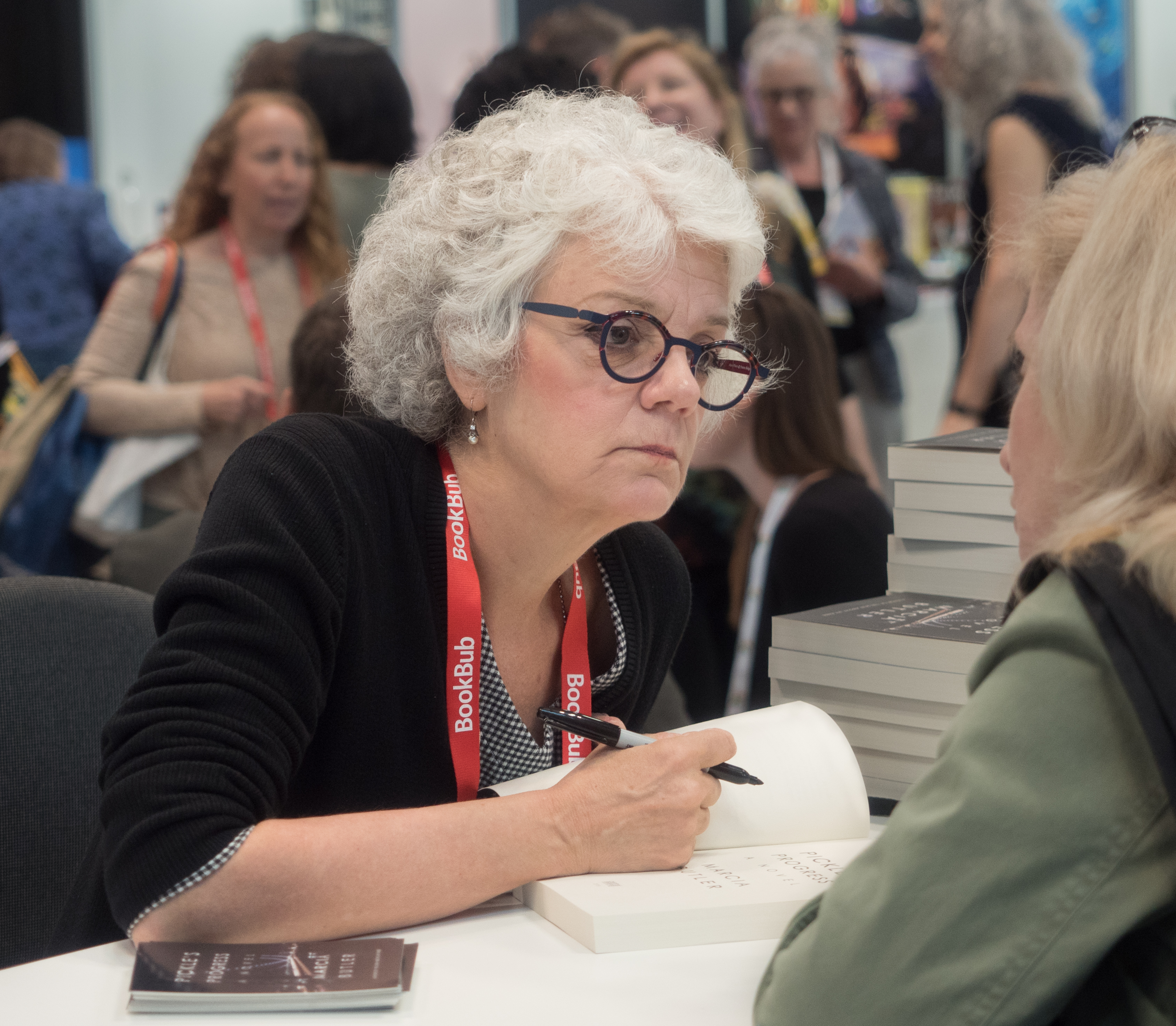 Marcia Butler at BookExpo at the Javits Center in New York City, May 2019.